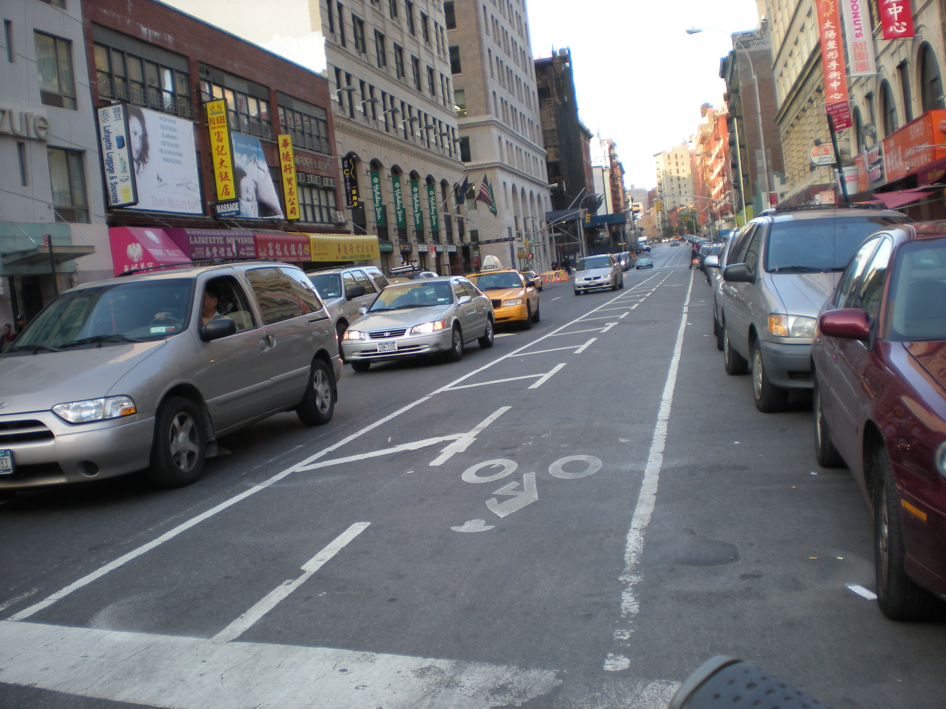 This photo is of Wikis Take Manhattan goal code R5, Bike Lane, buffered.